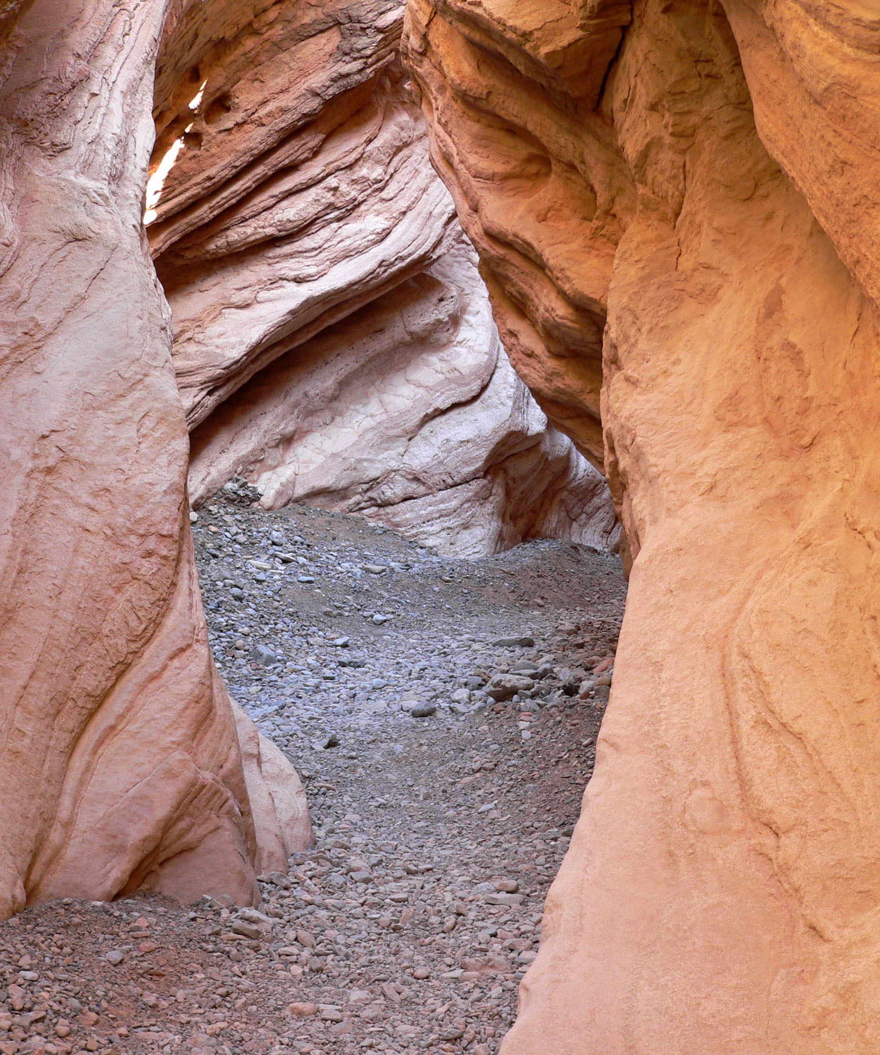 Anniversary Narrows, Lake Mead National Recreation Area, southern Nevada (NNPS field trip)